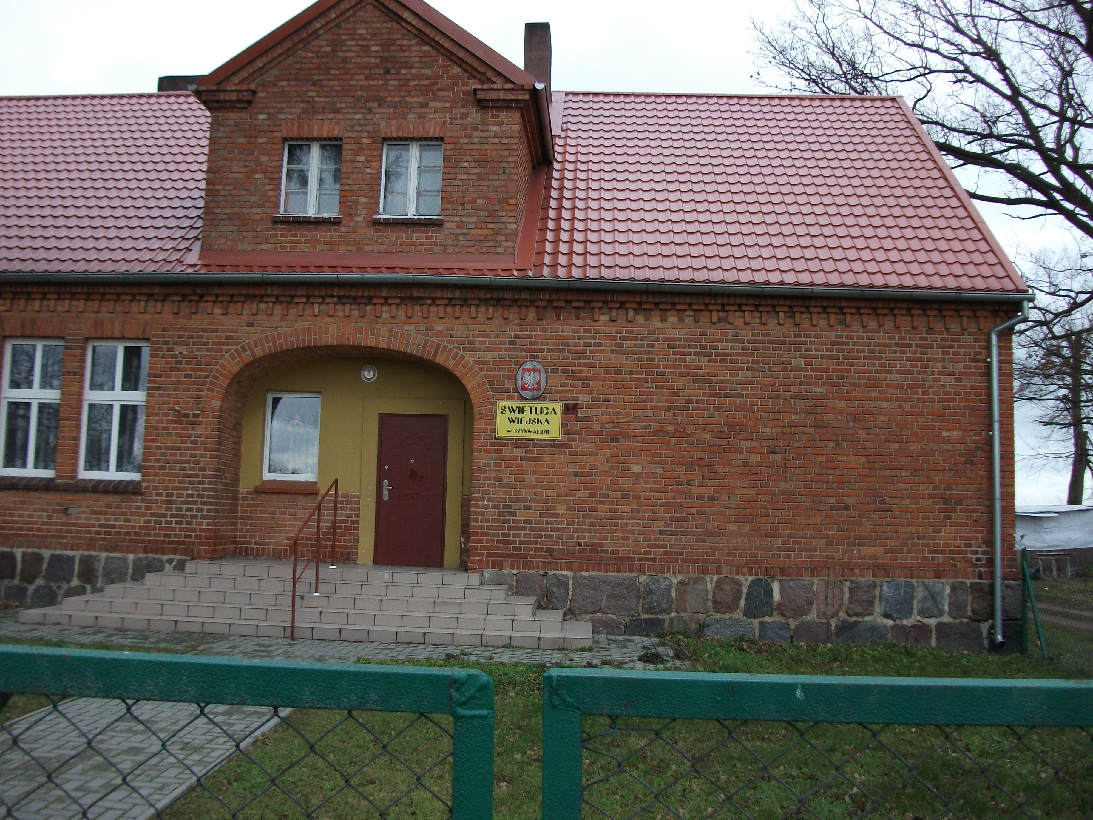 Szynwałd village in poland